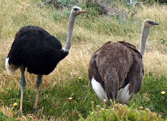 Male and Female ostriches Cape Point Bân-lâm-gú: 佇Cape Point的一對鴕鳥。